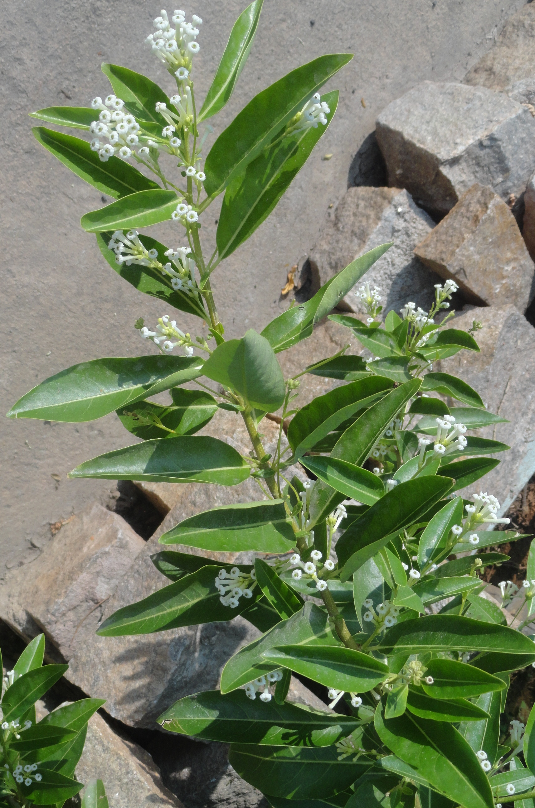 రేరాణి పువ్వులు